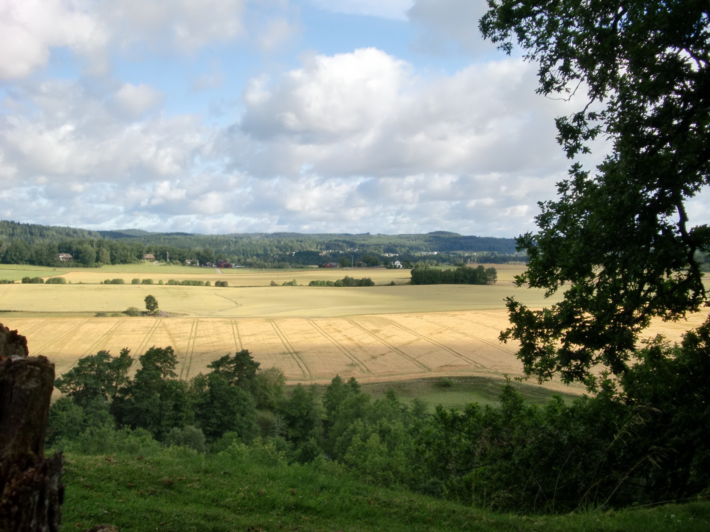 View from the castle Oresten towards the Viskan river valley, close to Skene in Sweden.